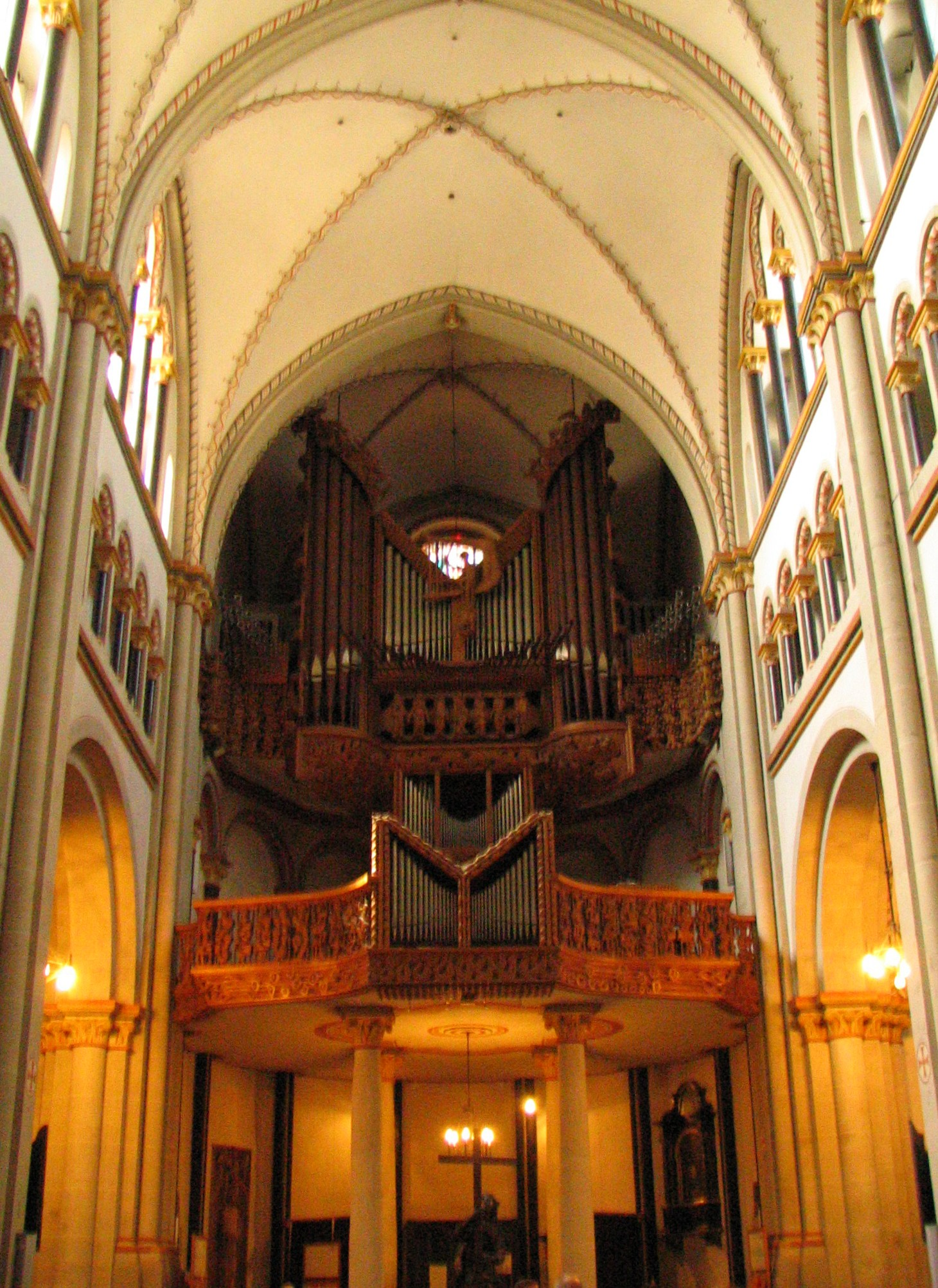 Interior view of the Bonner Münster, main nave with view of the organ Klais-Orgel.